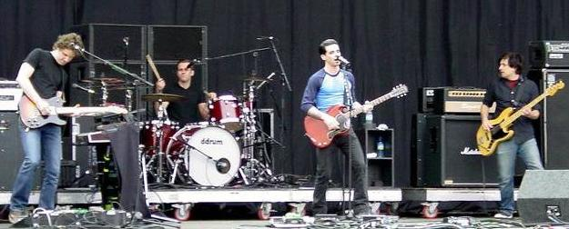 Dashboard Confessional (Cropped by riana_dzasta to remove crowd and focus on band.)